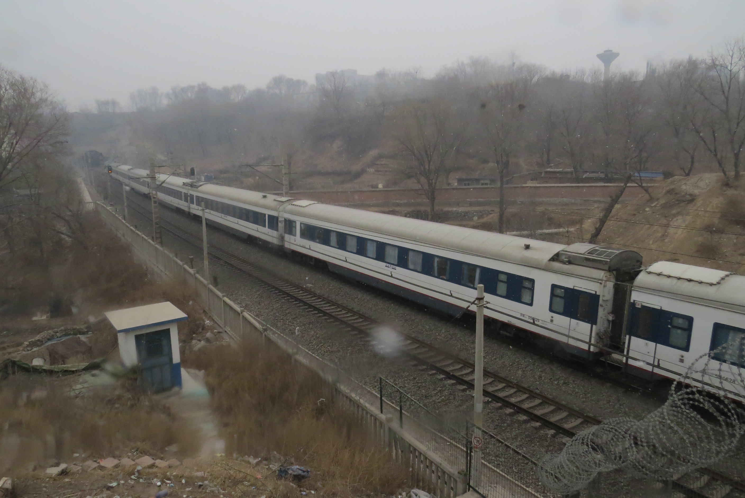 RW25T 554629 can be seen here, while snowflakes entered my lens. This tunnel is just 880 meters from Zhangguozhuang Station.